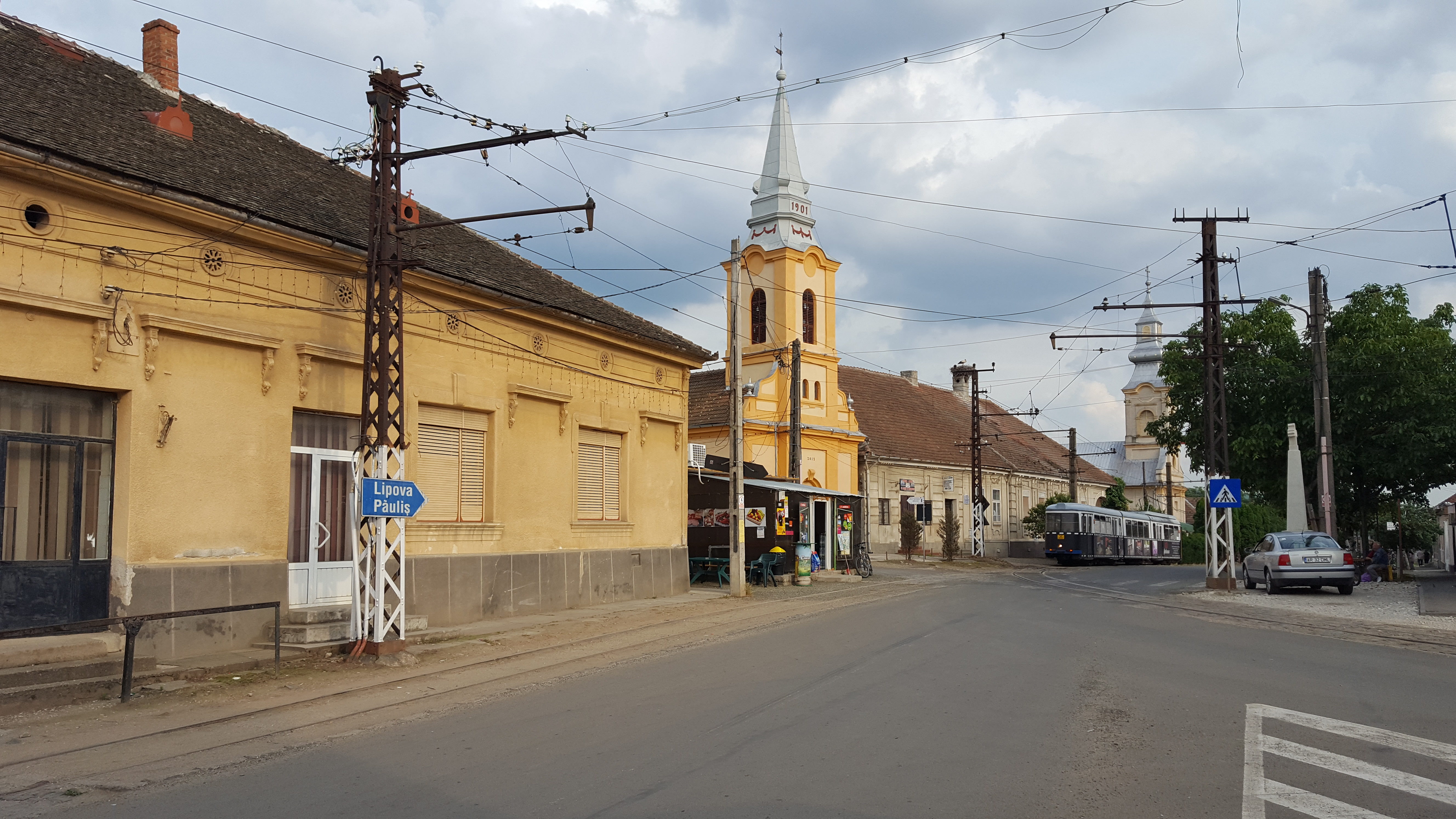 A tram at the end of track in Ghioroc, Romania